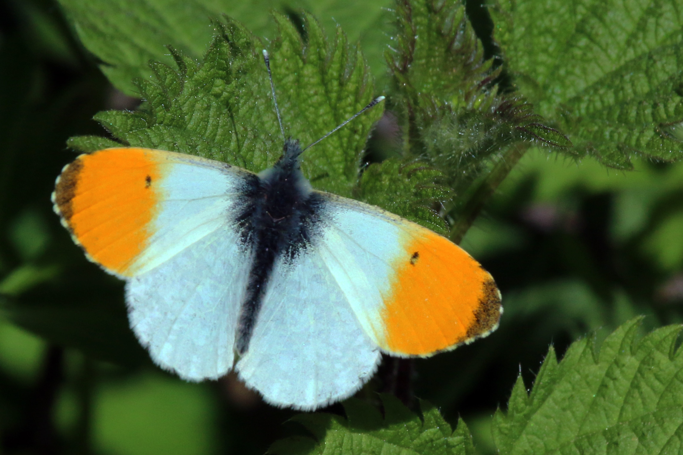 Orange Tip butterfly (Anthocharis cardamines), Wytham Woods, Oxfordshire (male)